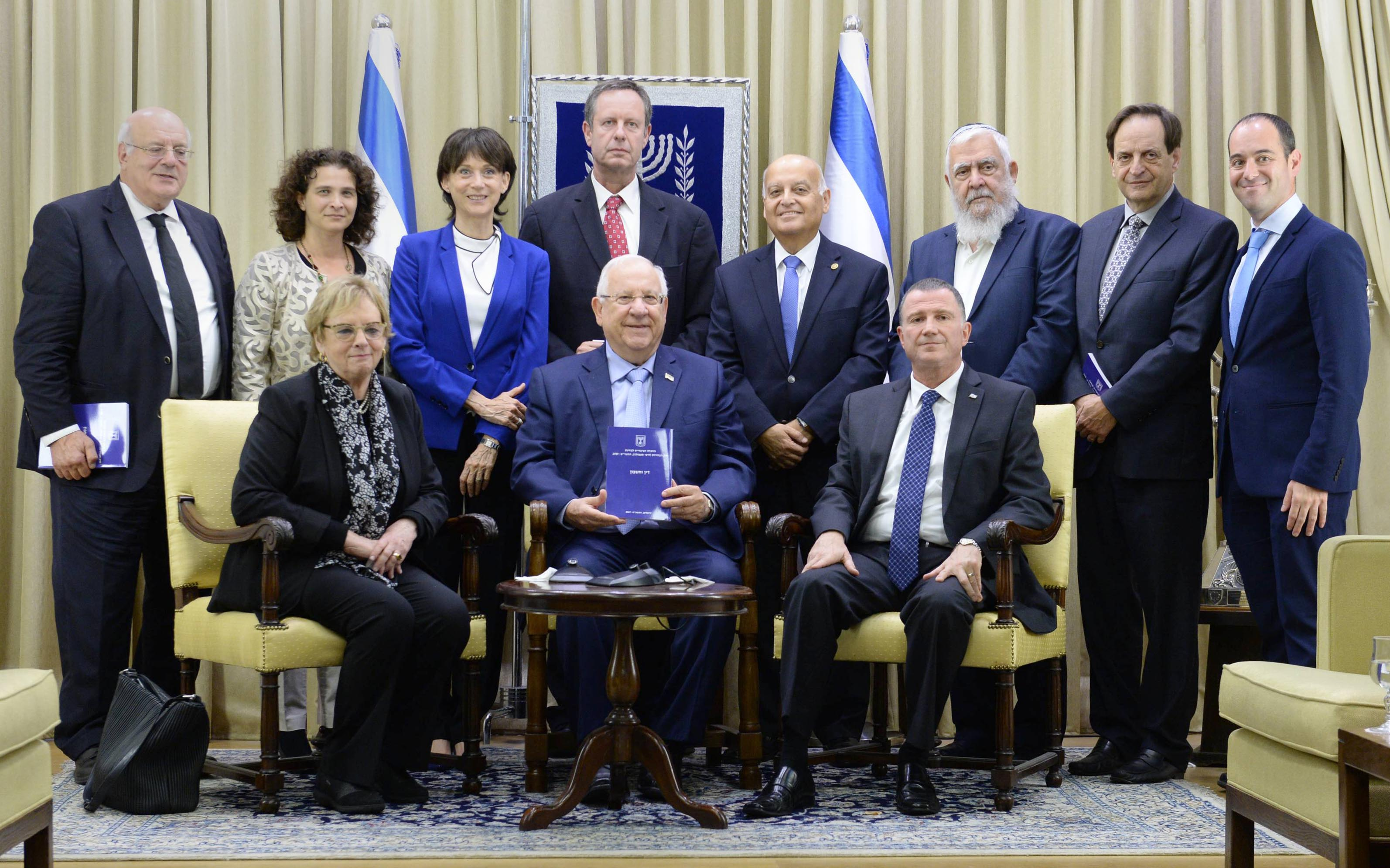 The President of Israel Reuven Rivlin receives the report of the Public Committee to Examine the Elections Law Tuesday, November 21, 2017. Photo Credit: Mark Neyman / GPO.